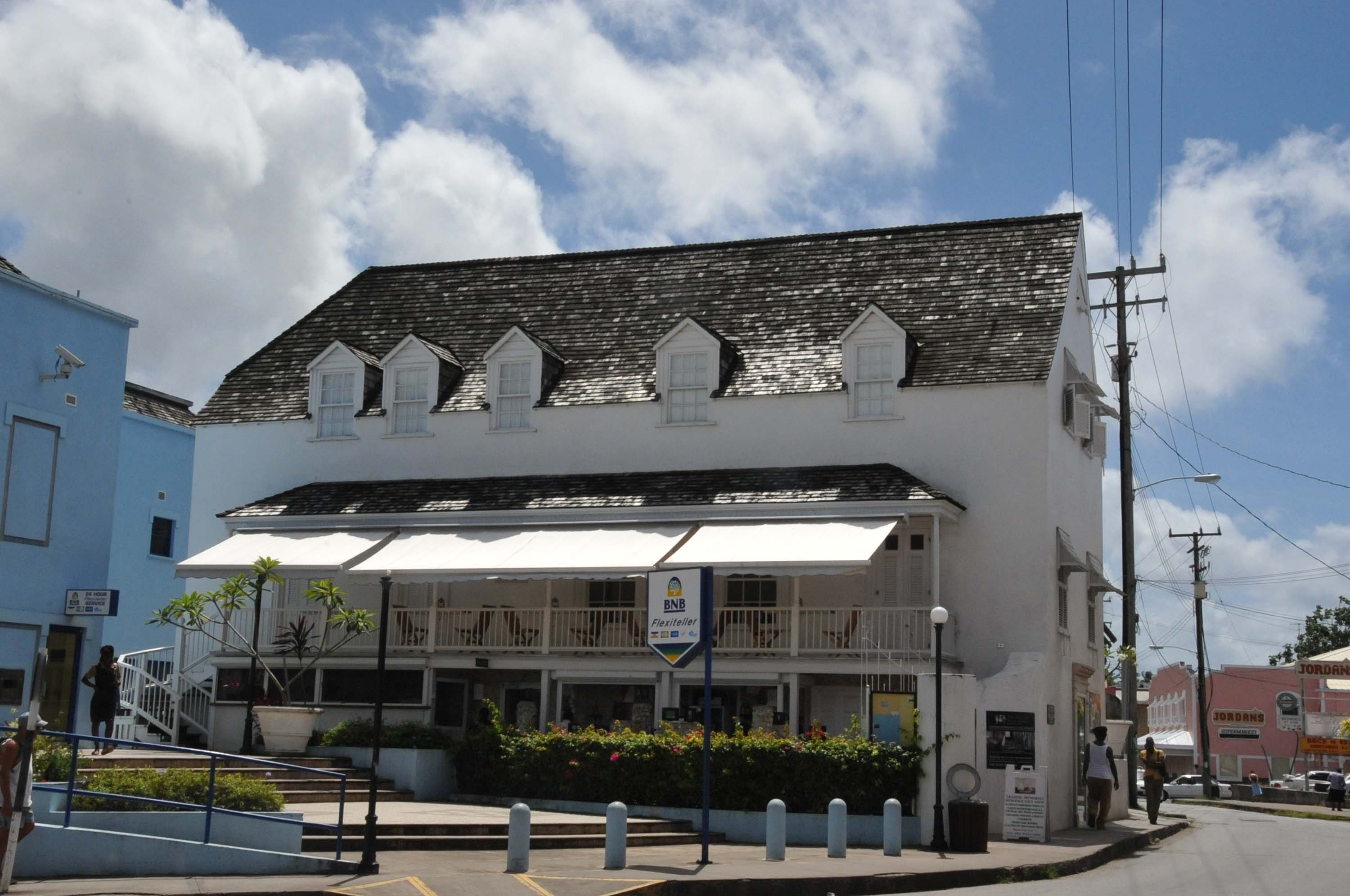 ARLINGTON HOUSE BUILT IN 1750 AND DESCRIBED AS A SINGLE HOUSE. IT IS BELIEVED TO BE THE MODEL WHICH WAS TAKEN TO CHARLESTON, S.C. BY ITS ORIGINAL BARBADIAN SETTLERS WHO WERE THE FIRST TO SETTLE THAT STATE. THE MERCHANT SKINNER FAMILY OCCUPIED THE HOUSE FOR 200 YEARS AND RAN A CHANDLERY IN THE GROUND FLOOR.